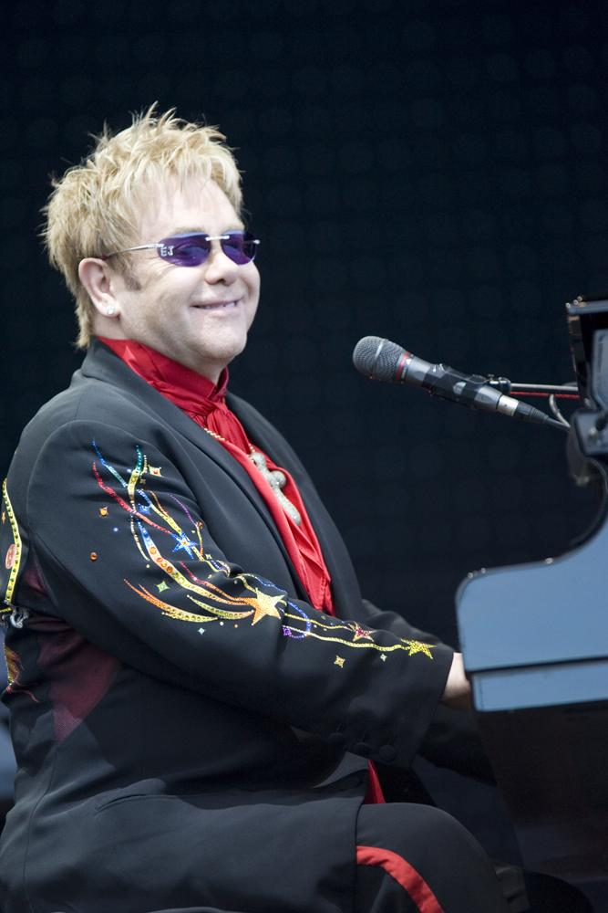 Elton John, English singer-songwriter and pianist, performing on stage at the Keepmoat Stadium, Doncaster, England.